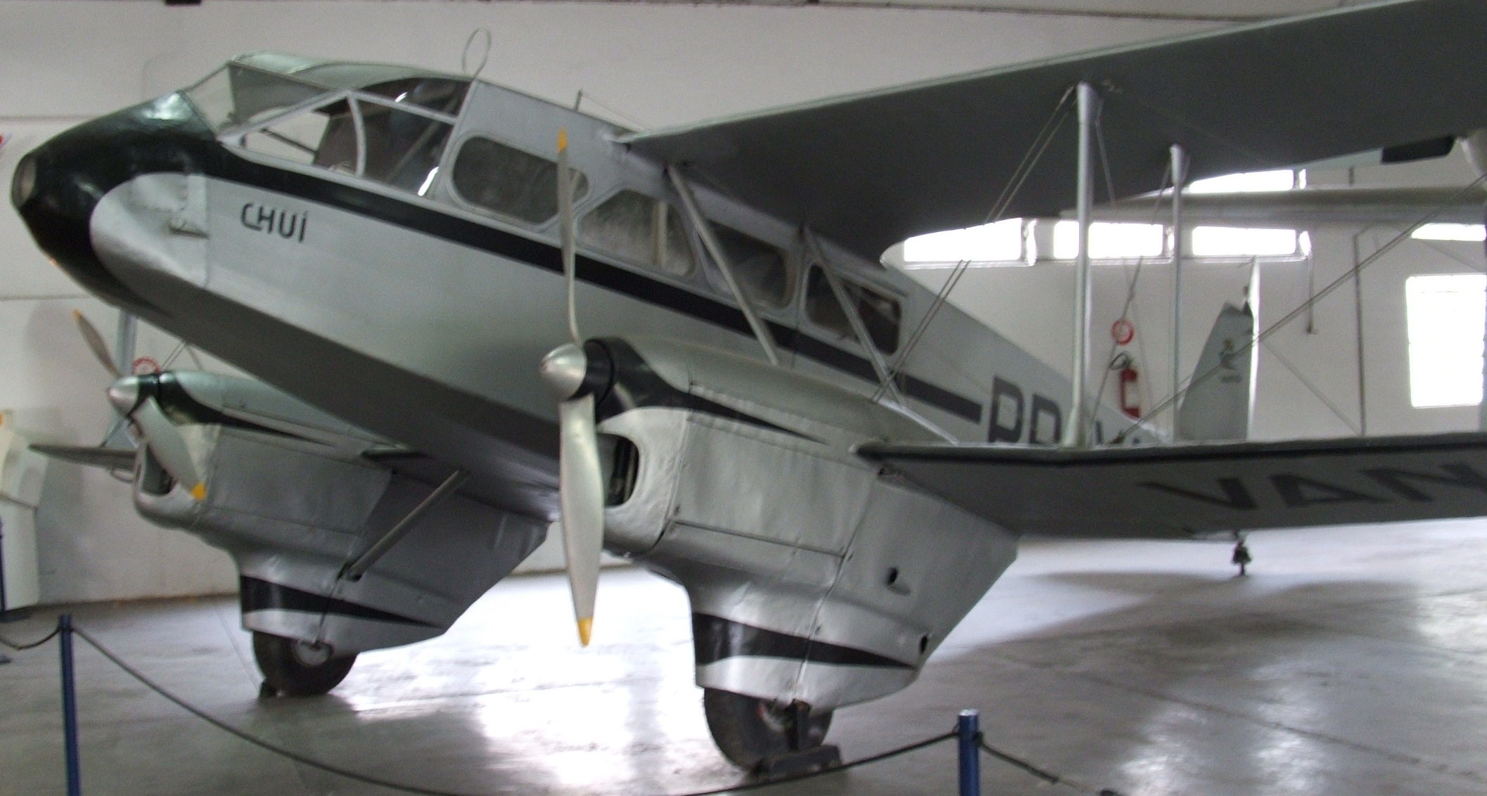 De Havilland DH-89 Dragon Rapide, with Varig colours, on exposition in the Airspace Museum, in Rio de Janeiro